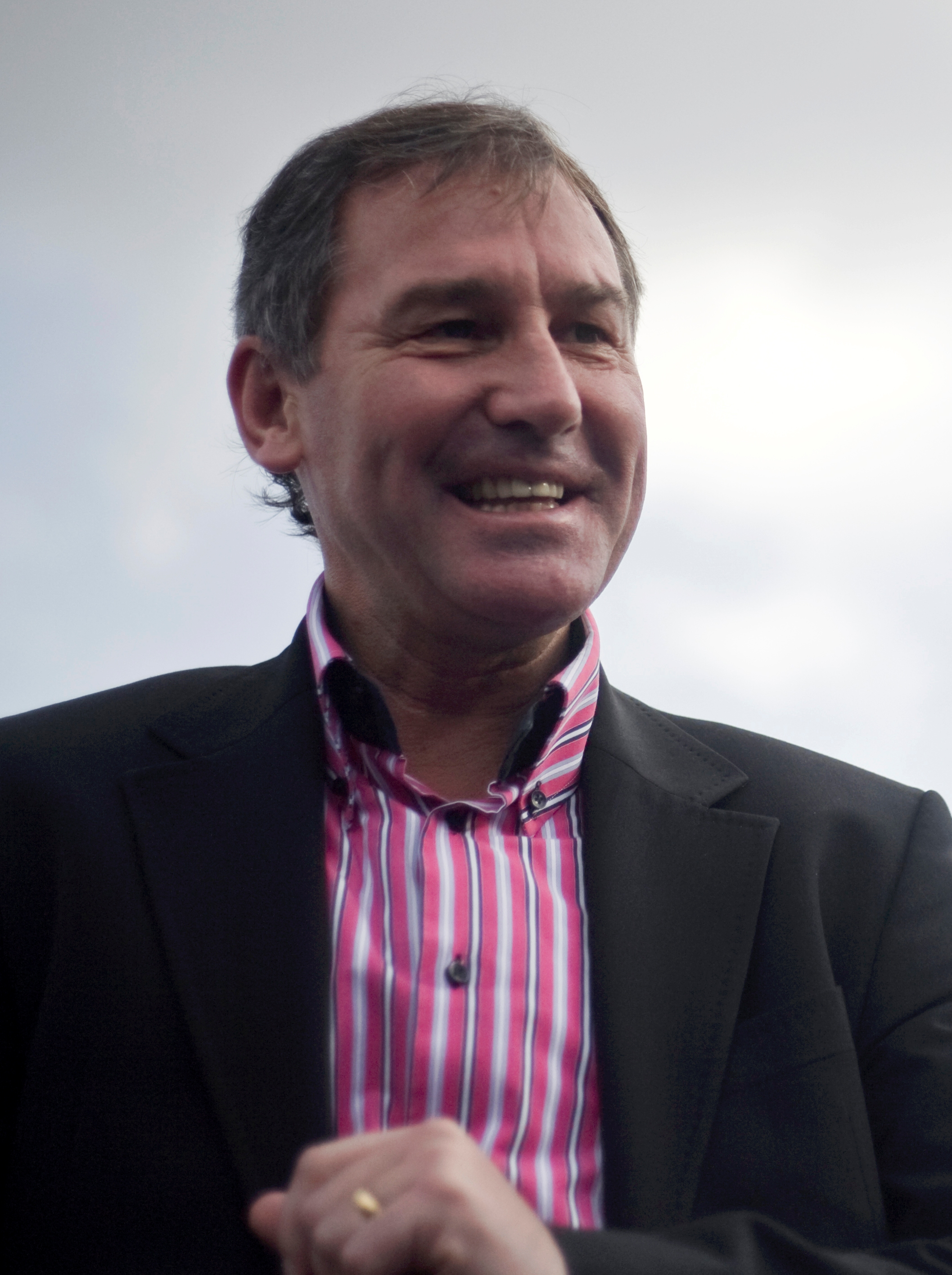 Bryan Robson speaking with Abhisit Vejjajiva (right) during a friendly football match in Thailand... นายกรัฐมนตรีแข่งขันฟุตบอลนัดกระชับความสัมพันธ์ระหว่างรัฐบาลและ สว. ณ สนามของทีมเมืองทองยูไนเต็ด 1พฤศจิกายน2552 (The Official Site of The Prime Minister of Thailand Photo by พีรพัฒน์ วิมลรังครัตน์)